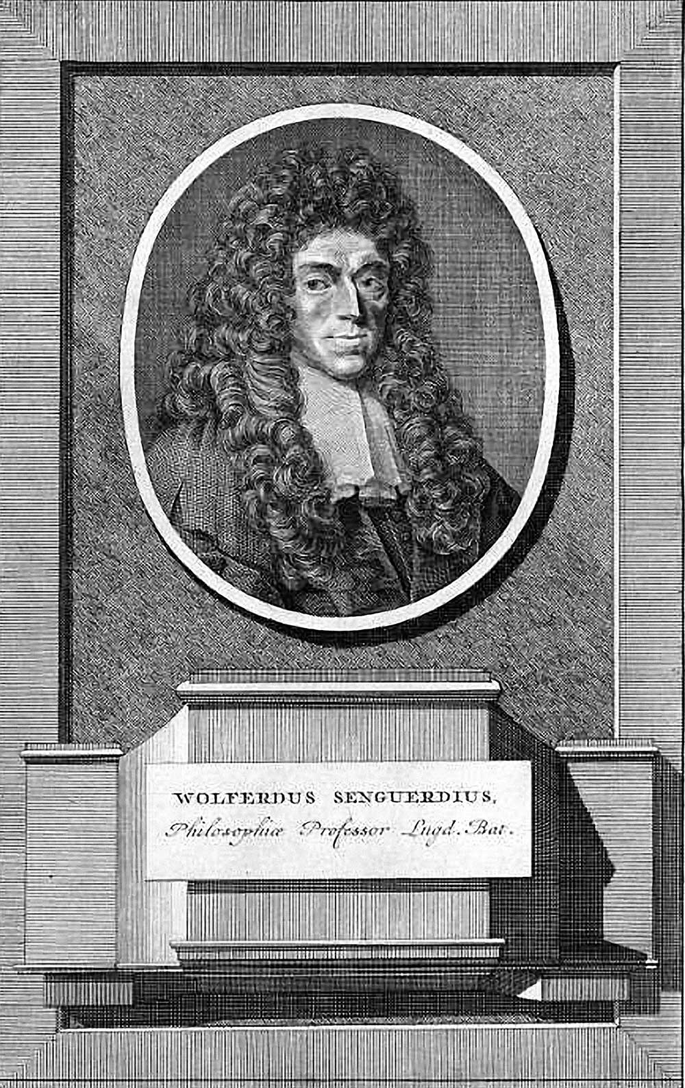 Wolferdus Senguerdius (1646-1724) Dutch philosopher